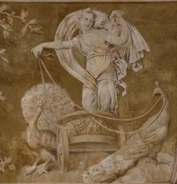 The Goddess Juno, on the walls of the Main Staircase of the Quintela Palace, in Lisbon, Portugal.